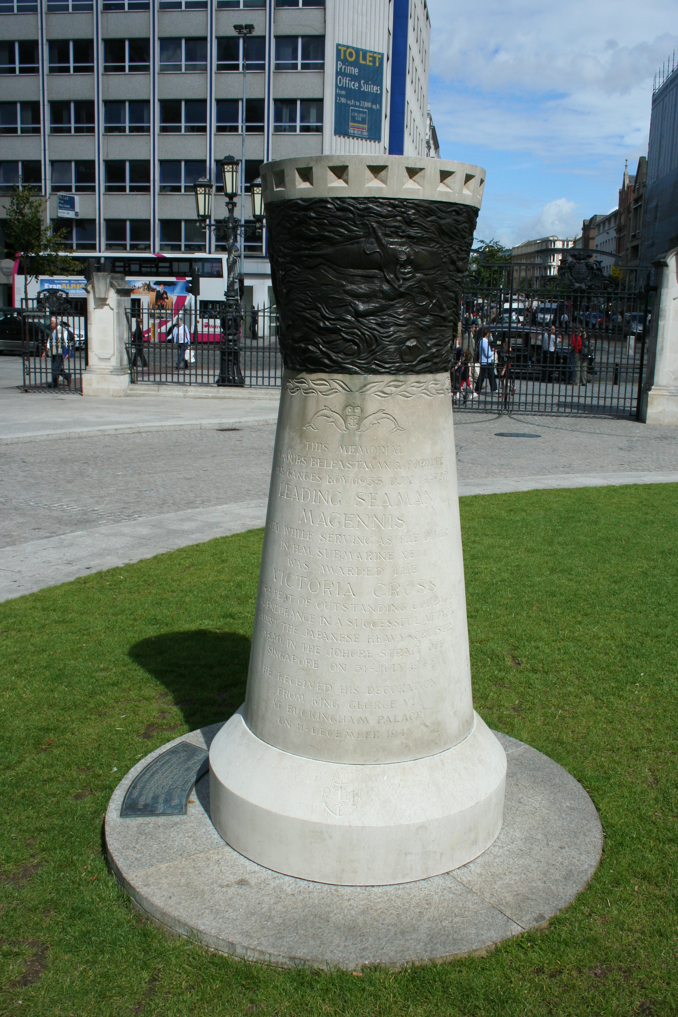 Memorial to Leading Seaman Magennis in the grounds of the City Hall, Belfast Credit: A Peter Clarke image